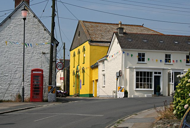 The Old Methodist Church, Probus. This church is now being used for a second-hand business and is painted a glorious golden yellow. Certainly an impressive sight in the late afternoon sun.